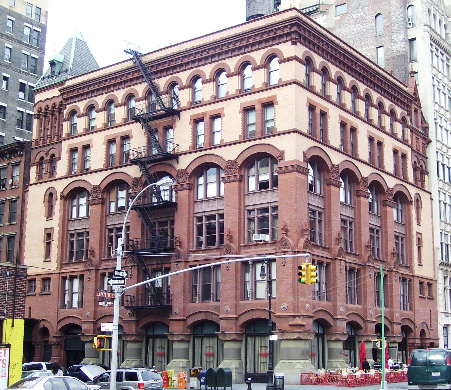 376-380 Lafayette Street, at Great Jones Street, was a loft building also known as the Shermerhorn Building. It was designed by Henry J. Hardenbergh, and built in 1888-1889. This view is from down Lafayette Street.